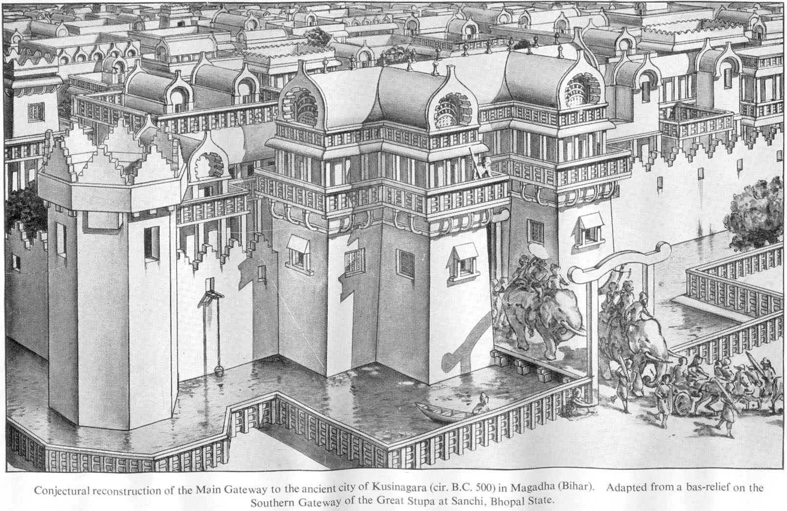 Conjectural reconstruction of the main gate of Kusinagara circa 500 BCE adapted from a relief at the Southern Gateway of the Great Stupa at Sanchi